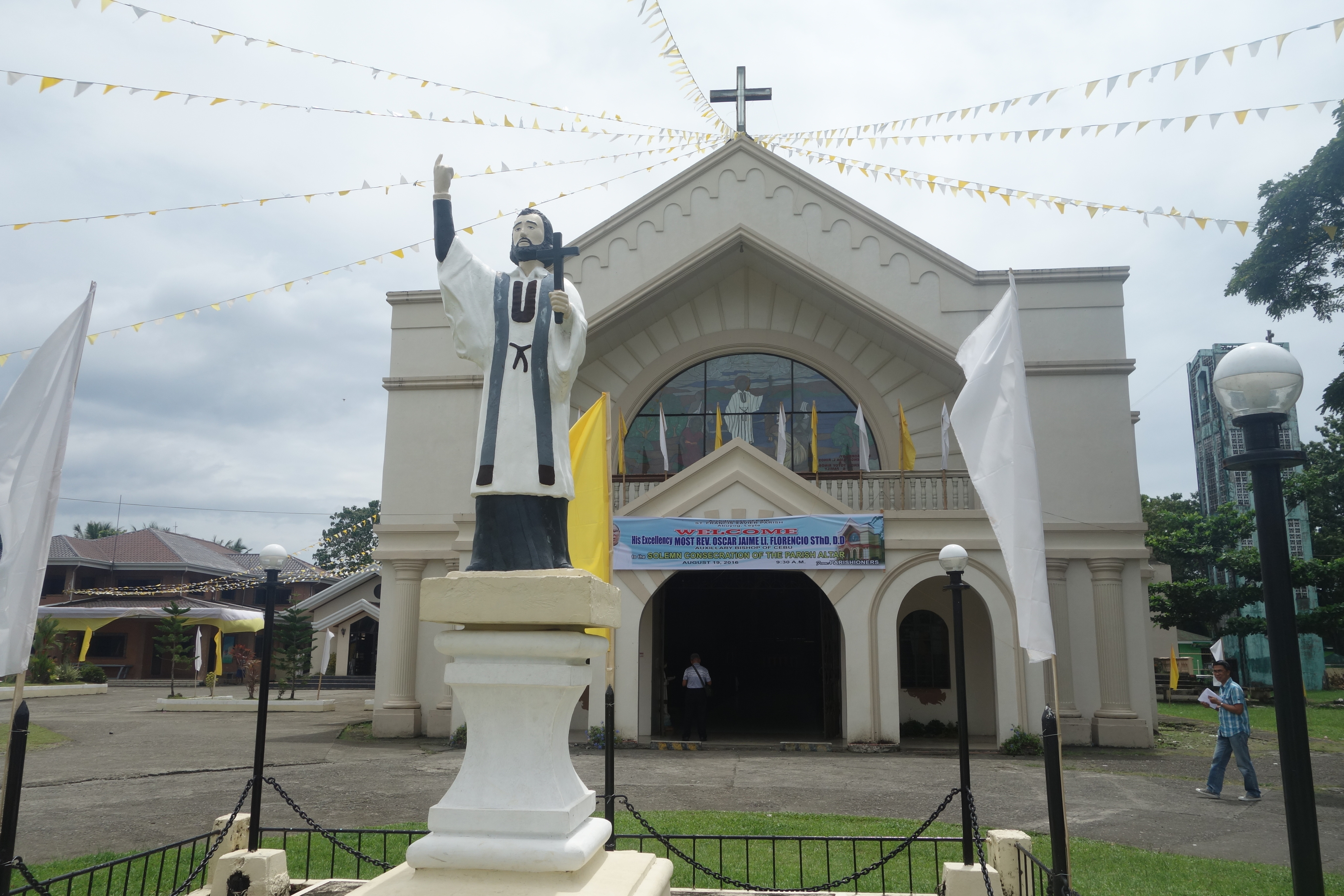 Facade of St. Francis Xavier Parish Church of Abuyog